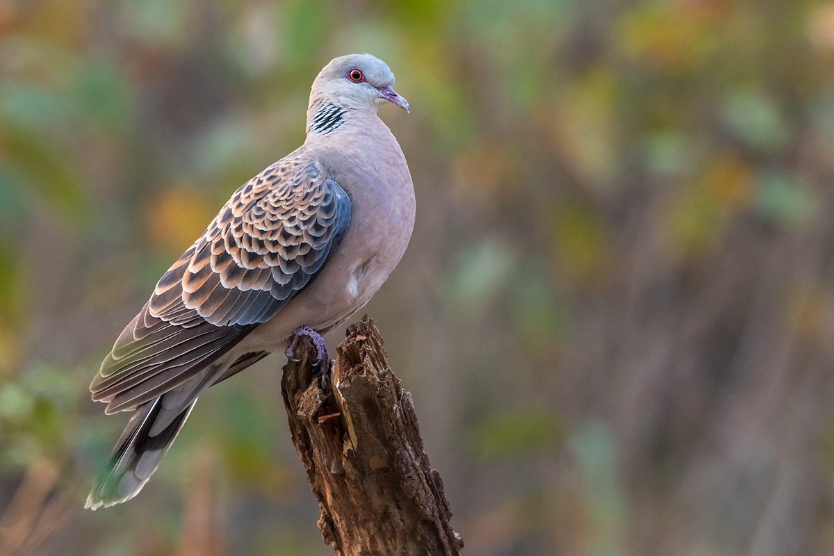 Streptopelia orientalis cf. meena. Sattal India